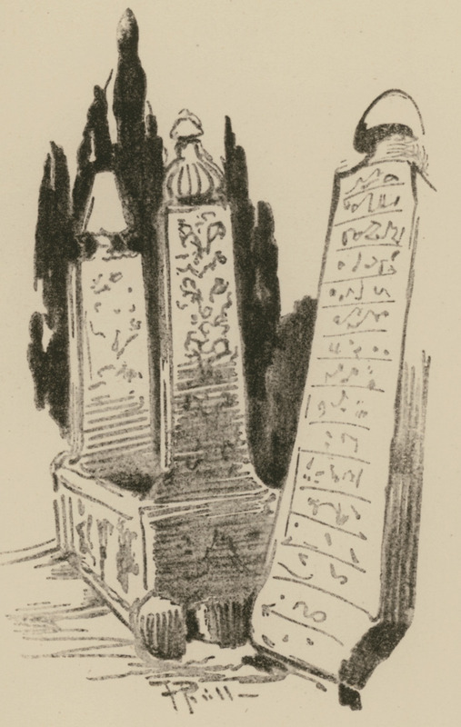 Francesco Perilla. Chio, l’Ile heureuse Ses Légendes, son Histoire, ses Tragédies, ses Beautés naturelles, ses Moeurs, ses Richesses. Aquarelles, Dessins, Photographies de l’auteur, Athens [Paris, A. Lahure], 1928.